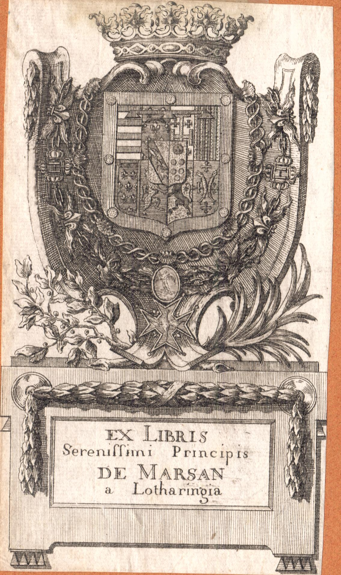 Ex-libris of Camille, Prince of Marsan (1725-1780)